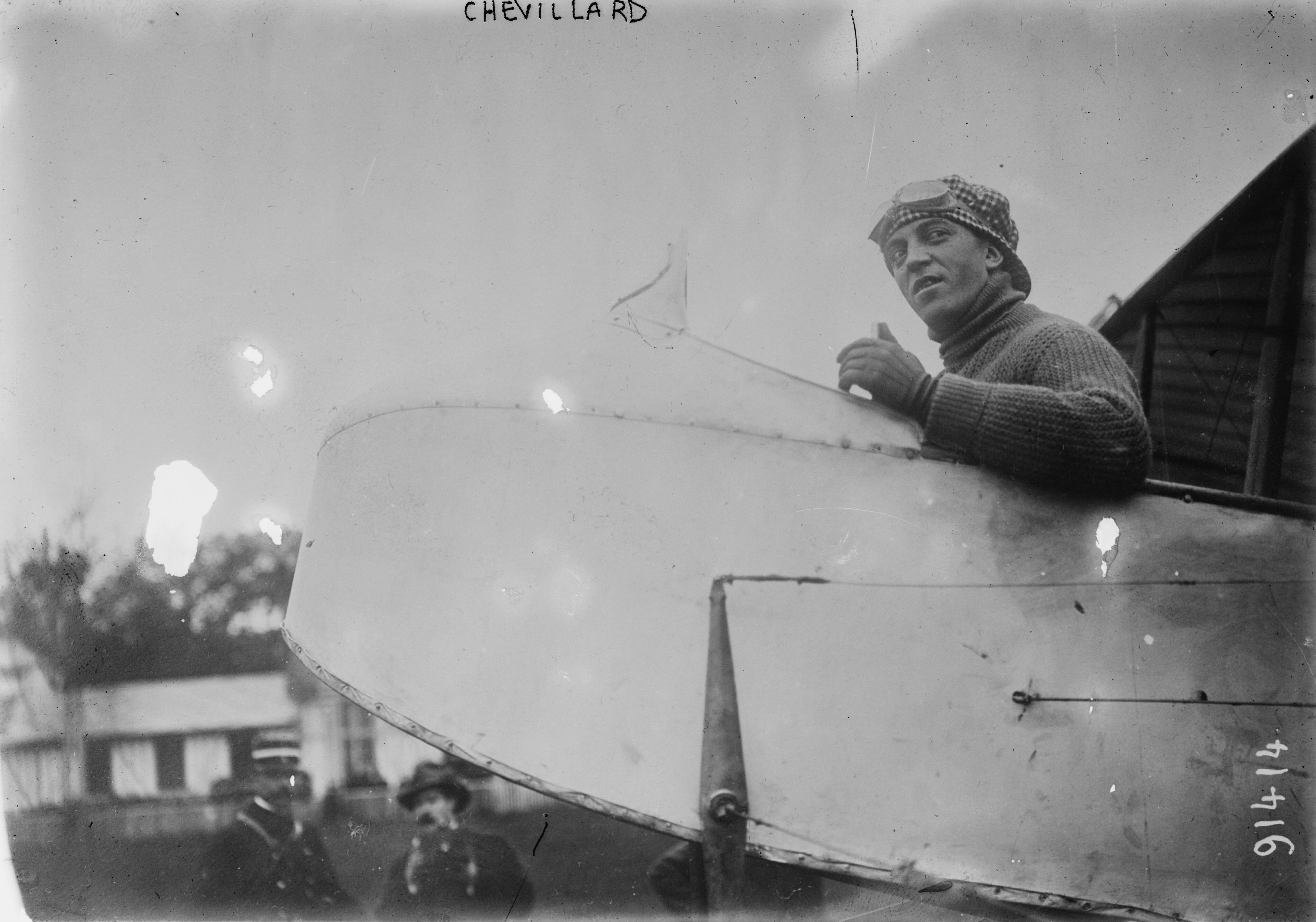 Bain News Service,, publisher. Maurice Chevillard [between ca. 1910 and ca. 1915] 1 negative : glass ; 5 x 7 in. or smaller. Notes: Title from unverified data provided by the Bain News Service on the negatives or caption cards. Forms part of: George Grantham Bain Collection (Library of Congress). Format: Glass negatives. Repository: Library of Congress, Prints and Photographs Division, Washington, D.C. 20540 USA, General information about the Bain Collection is available at Persistent URL: Call Number: LC-B2- 2923-4